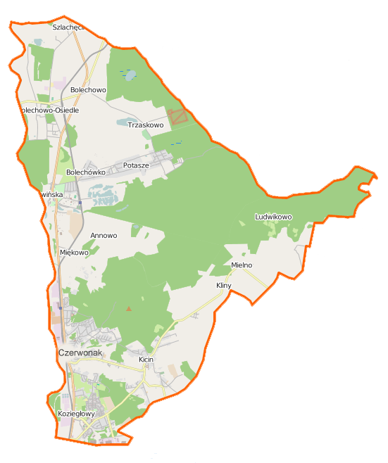 Map of Gmina Czerwonak, Poland This map of Czerwonak (gmina) was created from OpenStreetMap project data, collected by the community. This map may be incomplete, and may contain errors. Don't rely solely on it for navigation. Border coordinates52.571516.9481←↕→17.138052.4340